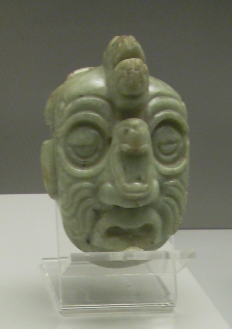 Sculpted jade head of the Olmec "bird-man" god. Preclassic Period (1200-400 BC), Mexico. Museum of the Americas, Madrid. Item 3174. [Note:This cannot be properly classified as a "god" or even "supernatural". Too little is known of the Olmec culture to make such assumptions.]